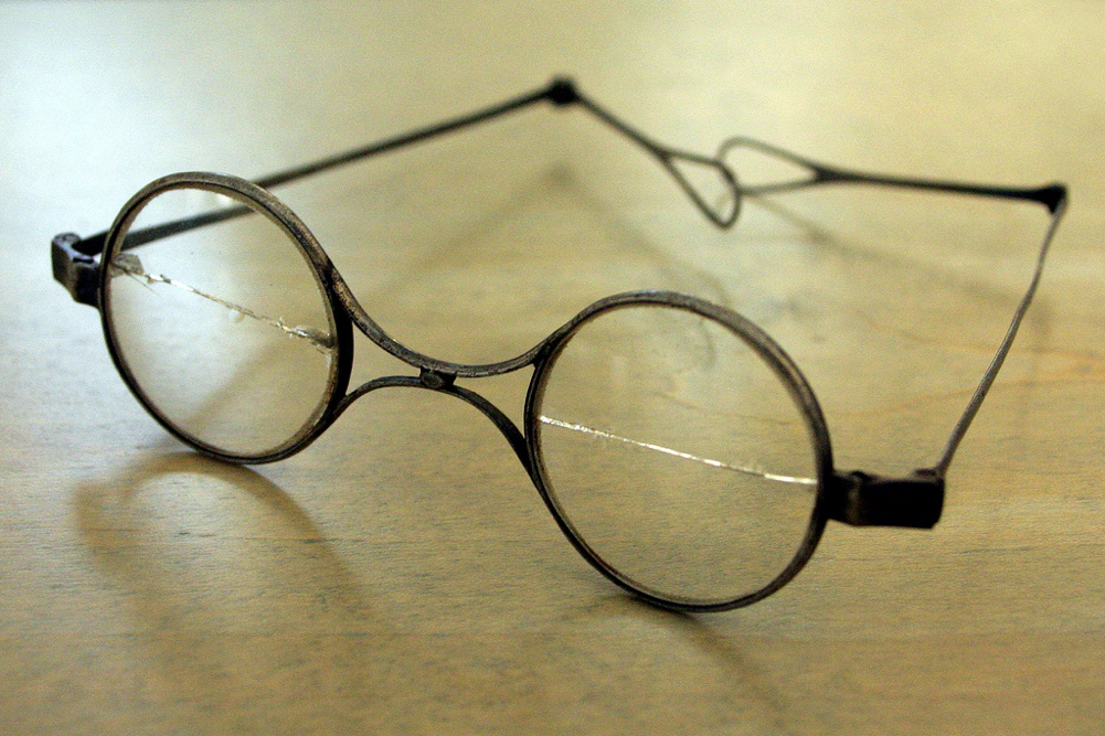 Schubert's Brille